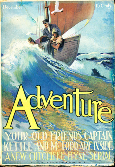 Cover of Adventure, vol. 3 no. 2 (December 1911).